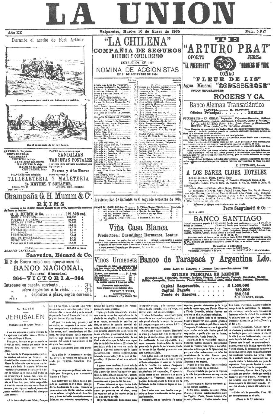 Newspaper front page